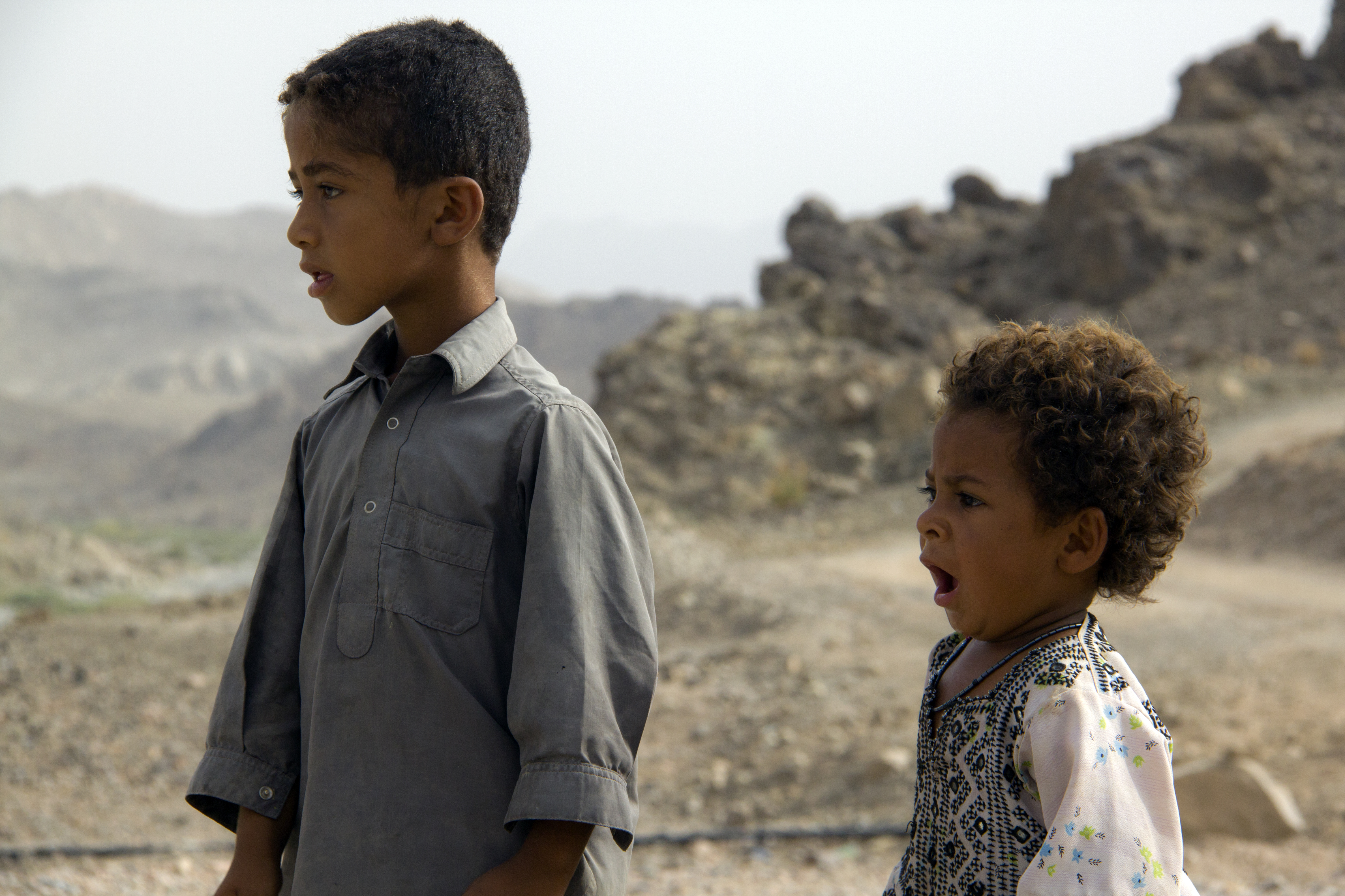 The Baloch or Baluch are a people who live mainly in the Balochistan region of the southeastern-most edge of the Iranian plateau in Pakistan, Iran, and Afghanistan, as well as in the Arabian Peninsula